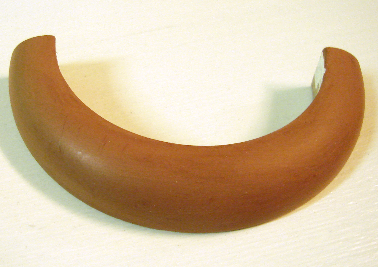 Armenian bolus applied to frame